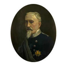 Retrat del Marqués de Castrofuerte (1899)